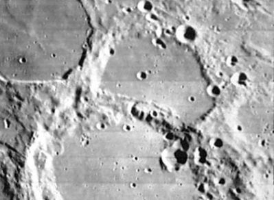 Lunar craters Nasmyth (center of the image) , Phocylides (bottom) and Wargentin (upper left). Lunar Orbiter - IV image LO iv 166 h3